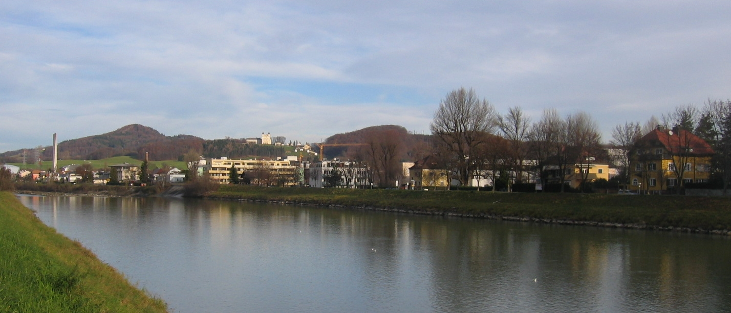 Itzling (Salzburg) Photograph by Gakuro